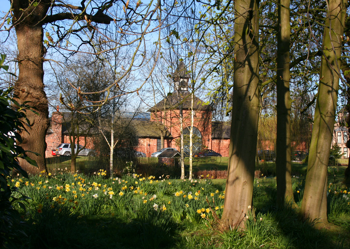 Former stables of Rookery Hall, near Worleston, Cheshire